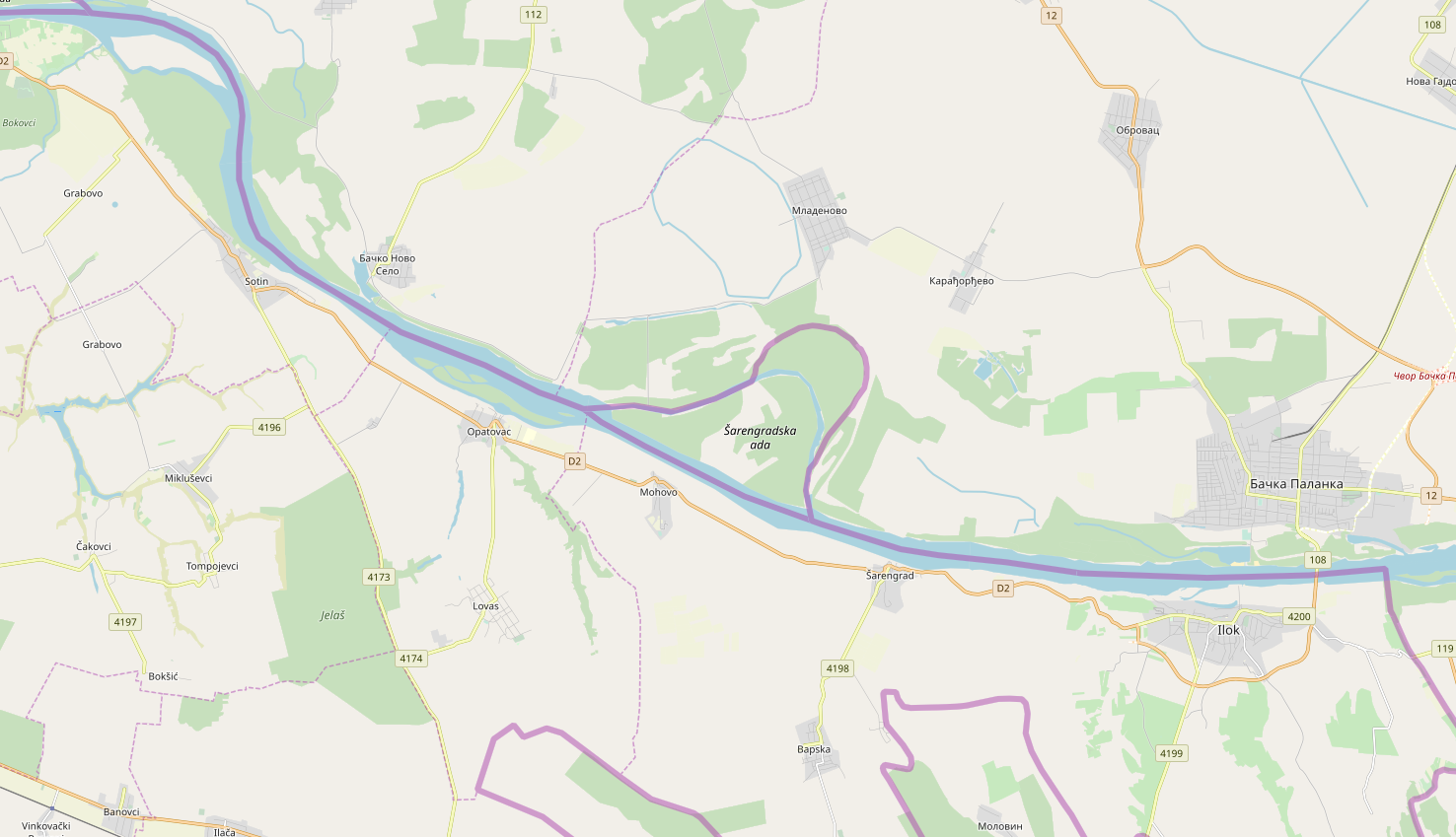 Map of Sarengradska Ada This map of Sarengradska Ada was created from OpenStreetMap project data, collected by the community. This map may be incomplete, and may contain errors. Don't rely solely on it for navigation.